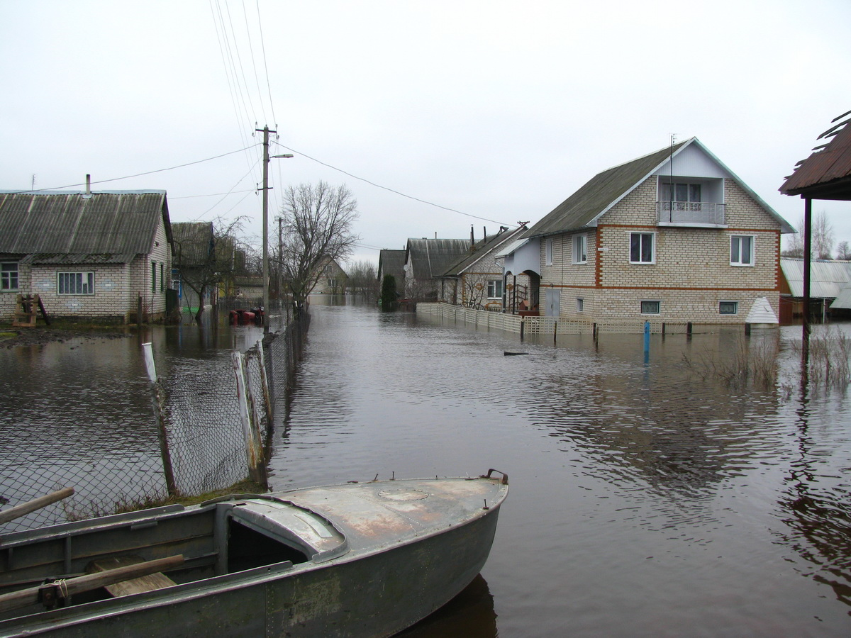 Drysa River flood. Verkhnedvinsk.